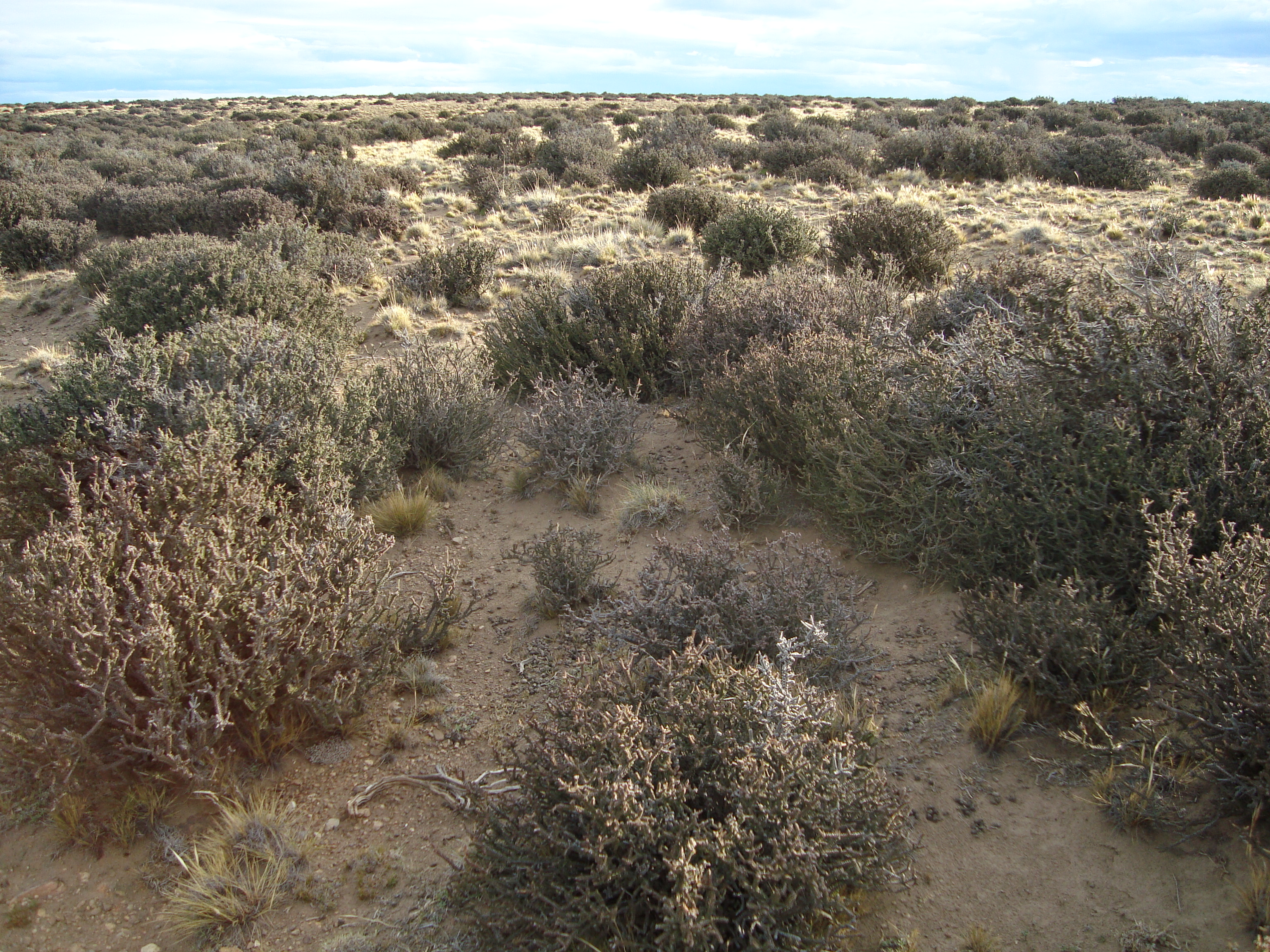 Junellia tridens, Mata Negra, Patagonian Desert, Argentinia